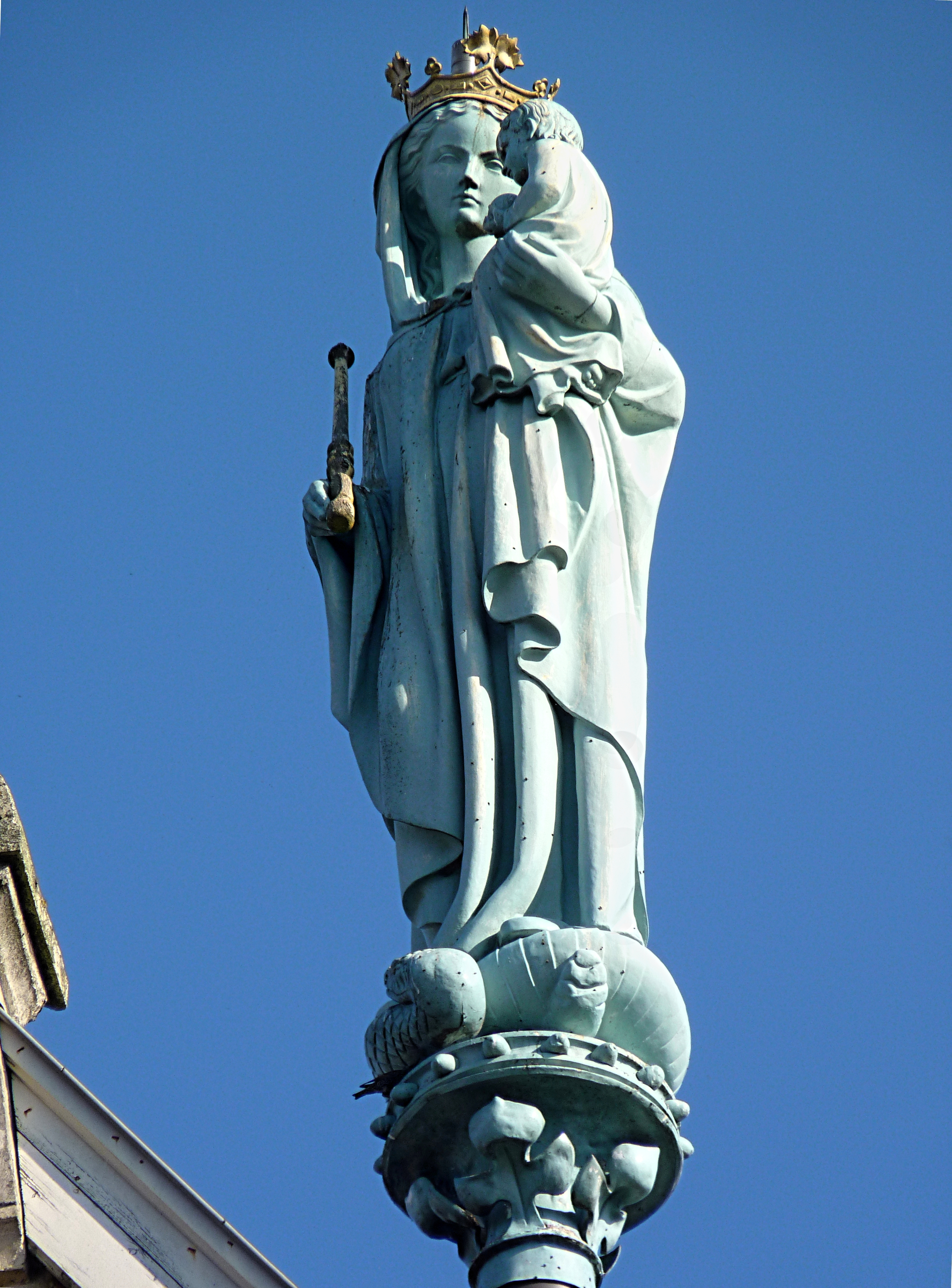 Statue of the Virgin, work of Eugène Viollet-le-Duc, which crowns the church Notre-Dame de la Marlière in Tourcoing (Nord), France.